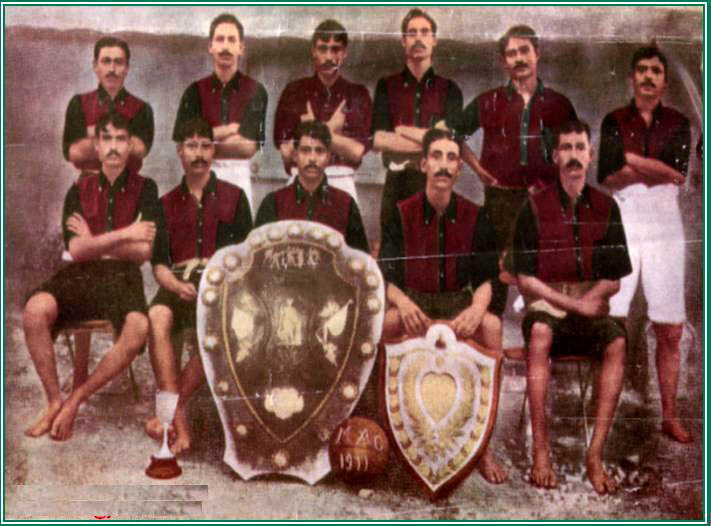 The Mohun Bagan A.C. team that won the 1911 IFA shield against East Yorkshire regiment.